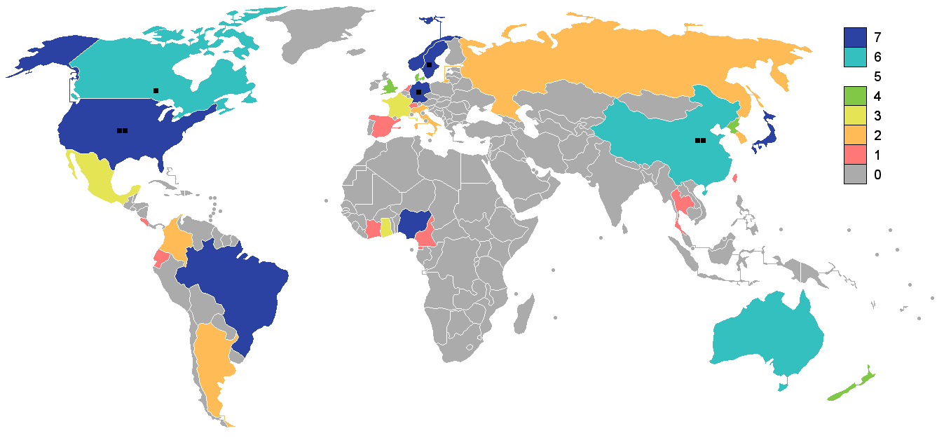 FIFA Women's World Cup – Number of appearances and host - 2015